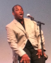 Lawrence Brownlee and Damien Sneed singing selections from "Spiritual Sketches" at Soho Apple Store